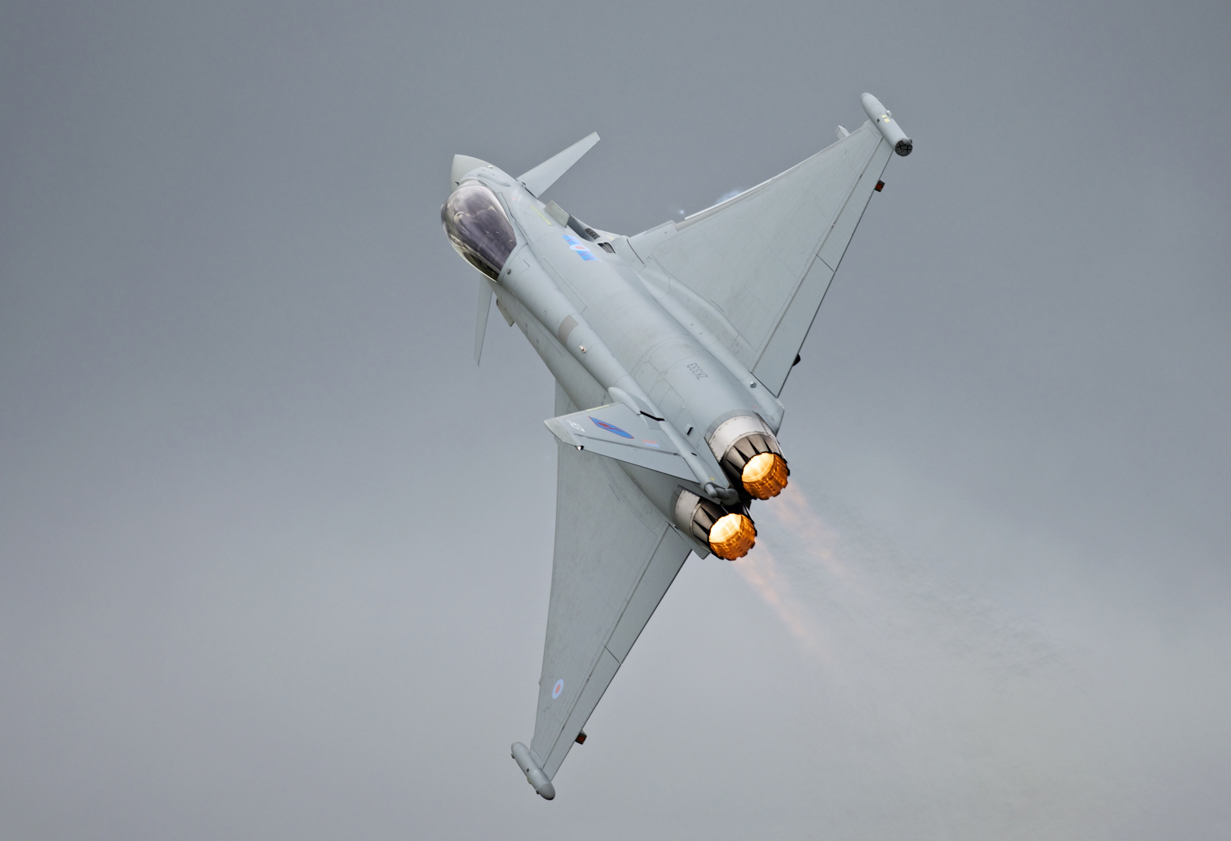 Royal International Air Tattoo 2012